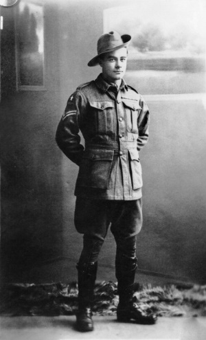 AWM Caption: Portrait of Corporal Arthur Percival Sullivan VC, a member of the AIF, who, later enlisted in the North Russian Relief Force, in the 45th Battalion of the Royal Fusiliers and gained his Victoria Cross for gallantry in rescuing under fire an officer and three men from drowning whilst fighting a rearguard action during a withdrawal across the Sheika River. Corporal Sullivan is wearing the North Russian Relief Force Star.